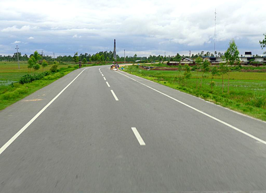 place dinajpur